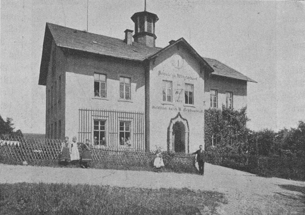 elementary school Witzschdorf in the Erzgebirge